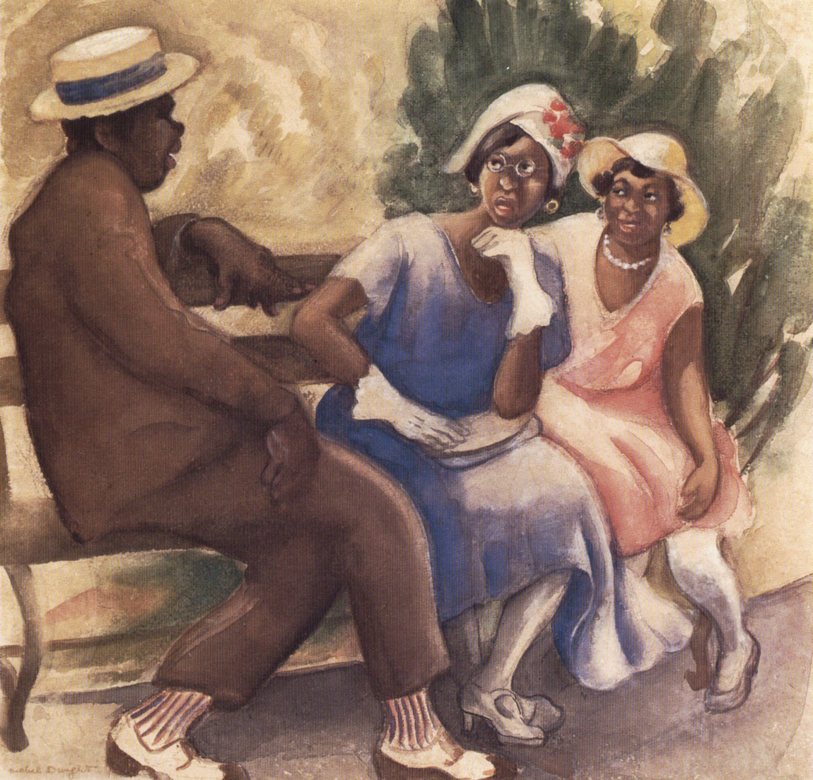 Mabel Dwight, untitled watercolor, 1934, 36.8 x 38.7 cm